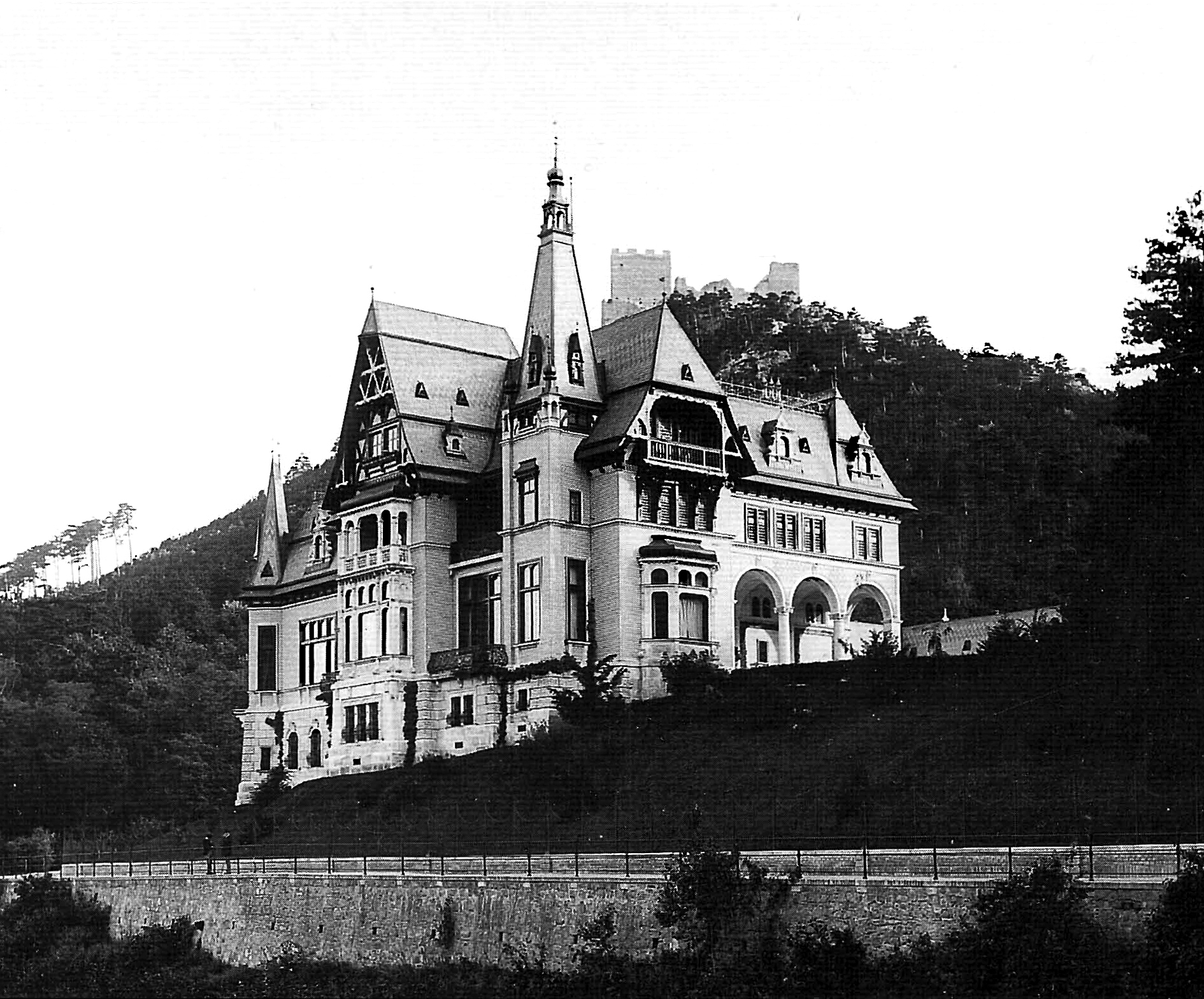 Eugen-Villa am Holzschwemm-Kanal der Schwechat bei Baden bei Wien,1891